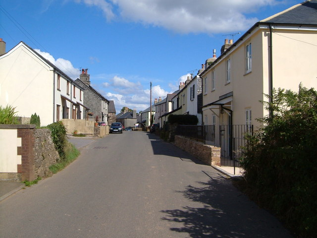 Moreleigh. Looking east along the village street from the western end of the main part of the village.